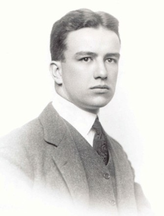 Cropped and flipped photo of young Buckminster Fuller